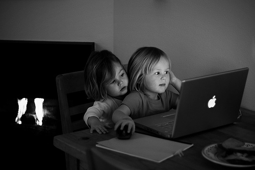 This picture is of two children on a computer.